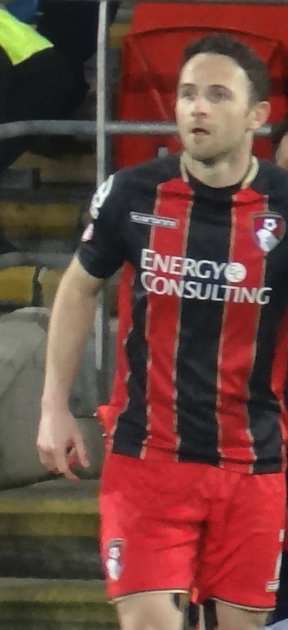 Marc Pugh. Image cropped from original at flickr.